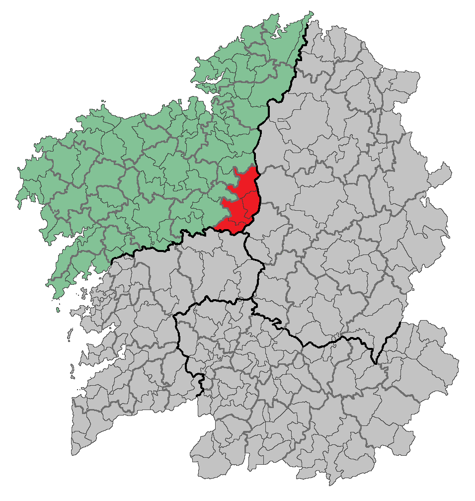 Region of Galicia (Spain) Based in: Image:Location of Melide.png Source: Designed by Leoplus. Original picture, designed by Caiser over a work made by Alyssalover.